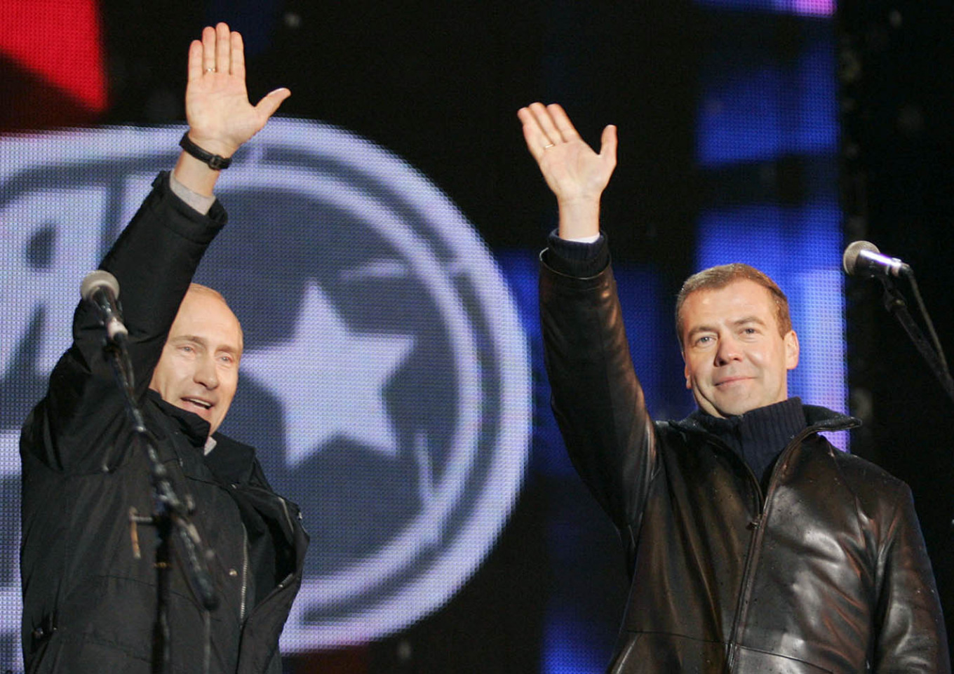 VASILYEVSKY SPUSK, MOSCOW. At the “I Choose Russia!” concert.